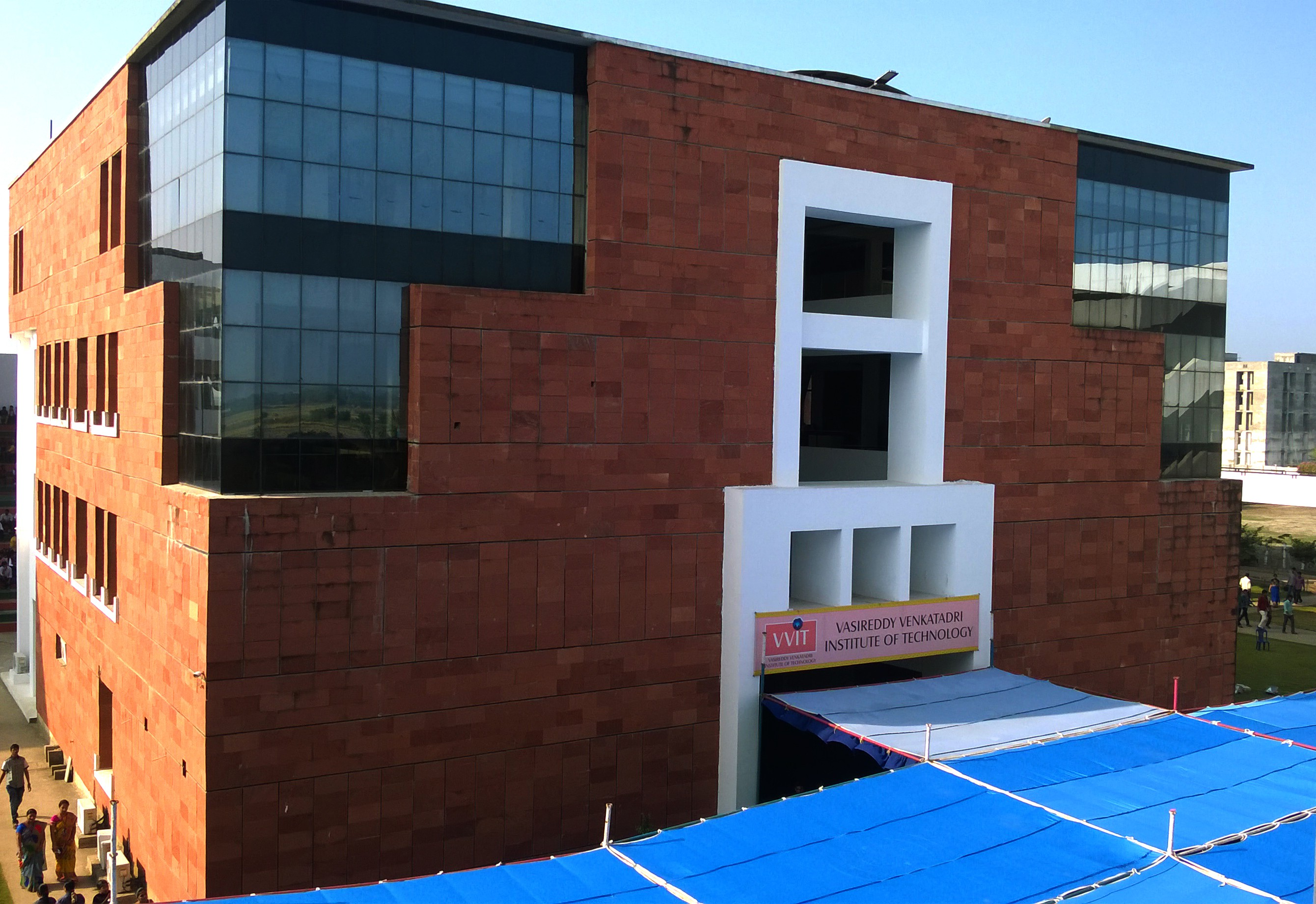 A View of Central Block of VVIT from D Block